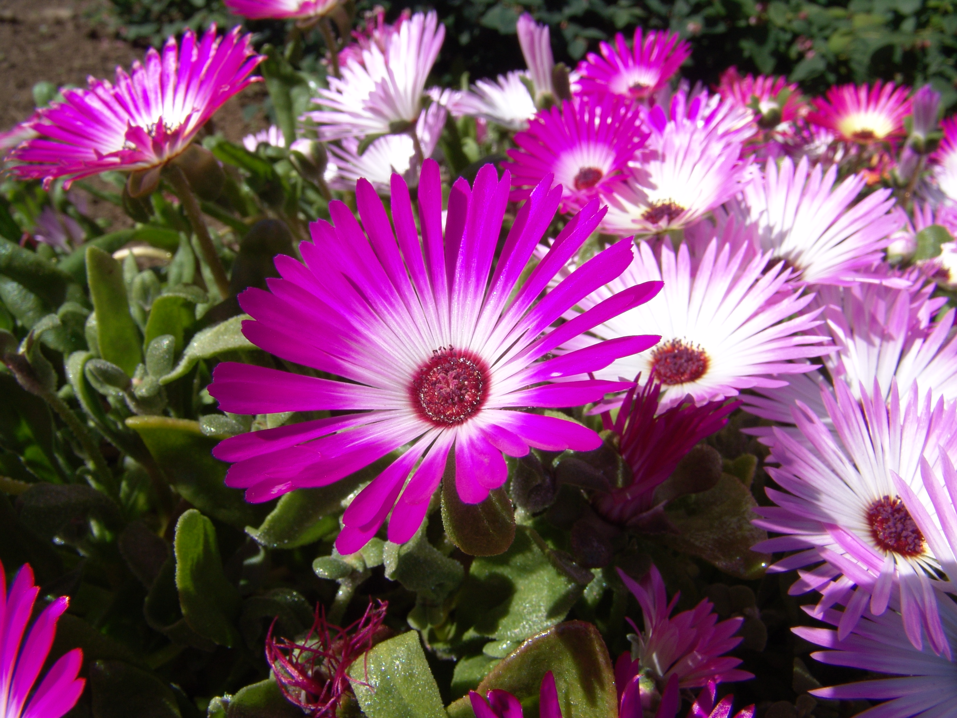 Island, Botanischer Garten Akureyri. = Dorotheanthus bellidiformis